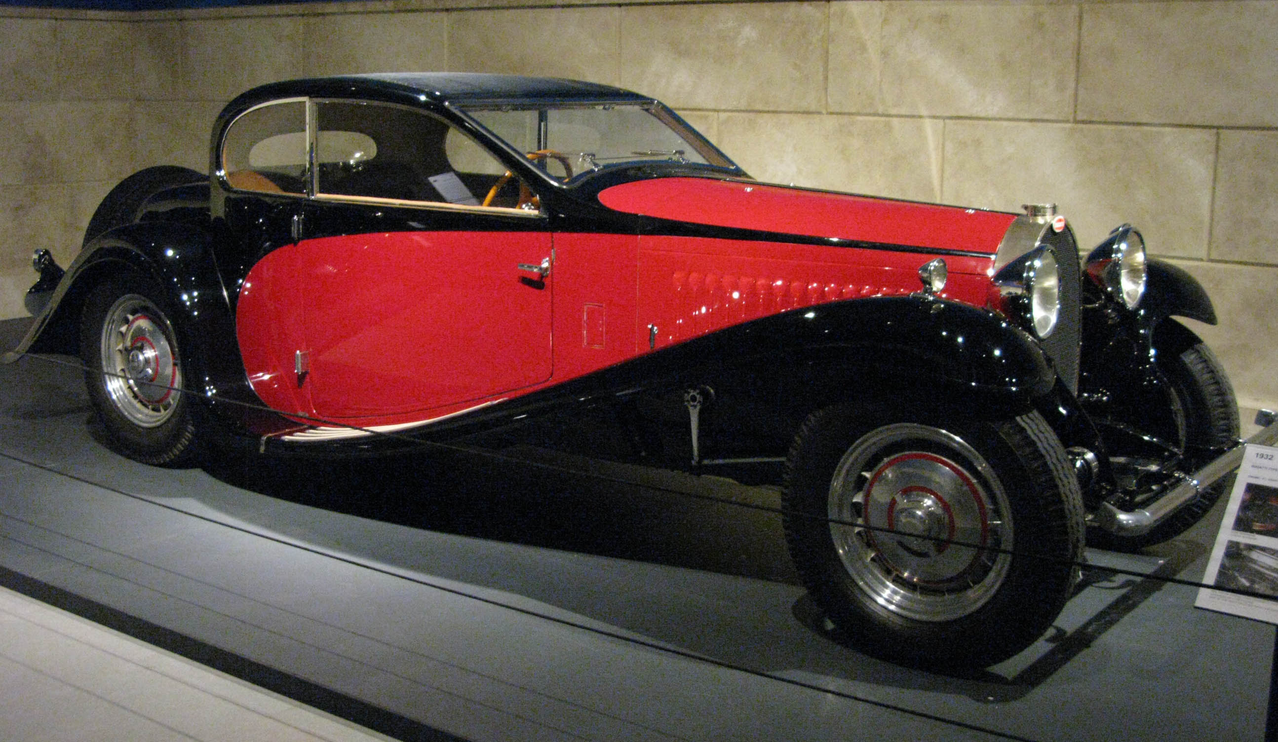 1932 Bugatti Type 50T, "Coach Profilée" body design by Jean Bugatti.